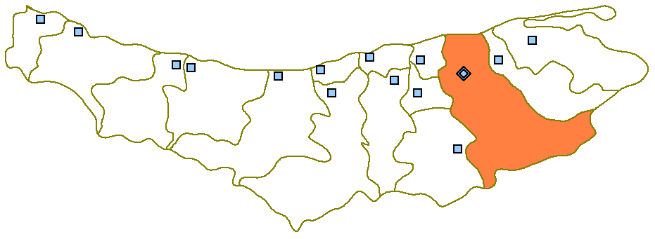 Author: Siamax Source: Mazandaran Plain Map Tag: Sari location in Mazandaran